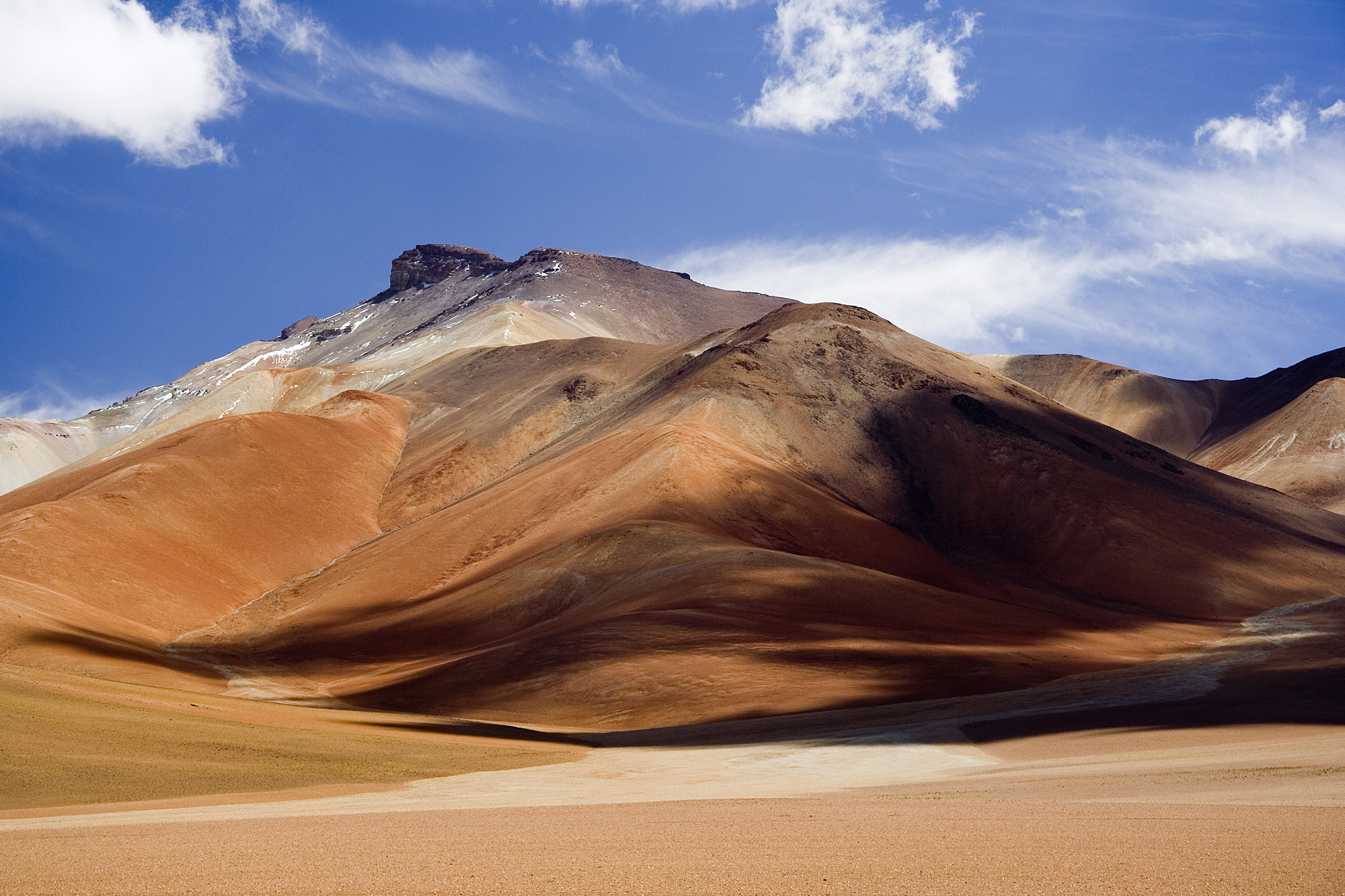 Colors of Altipiano Boliviano, 4720 meters, Bolivia.